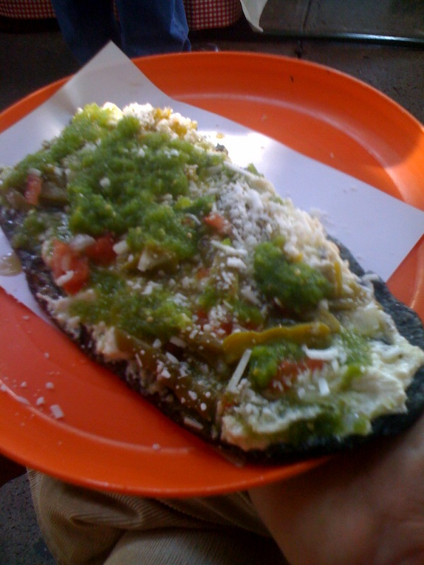 This is the mexican dish "tlacoyo"